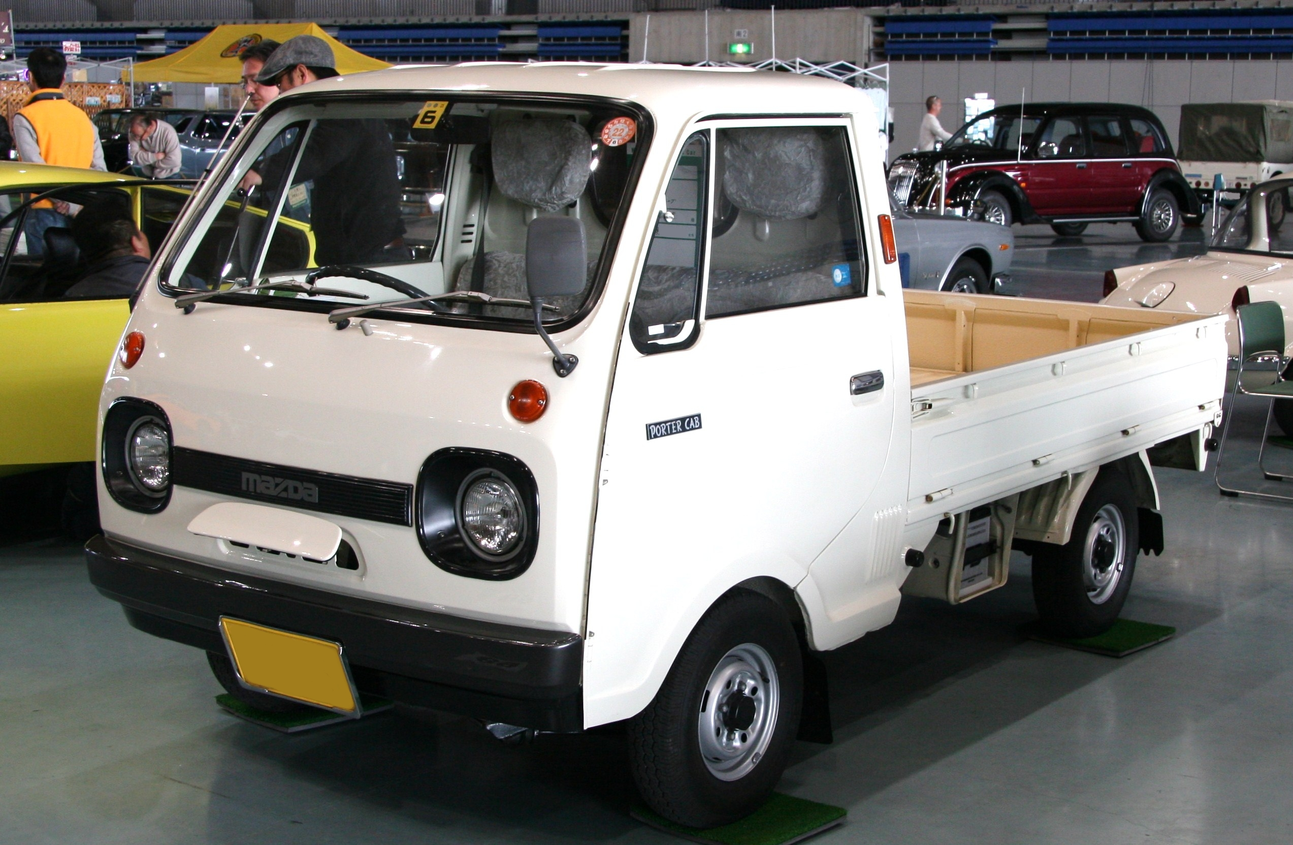 Mazda Porter Cab